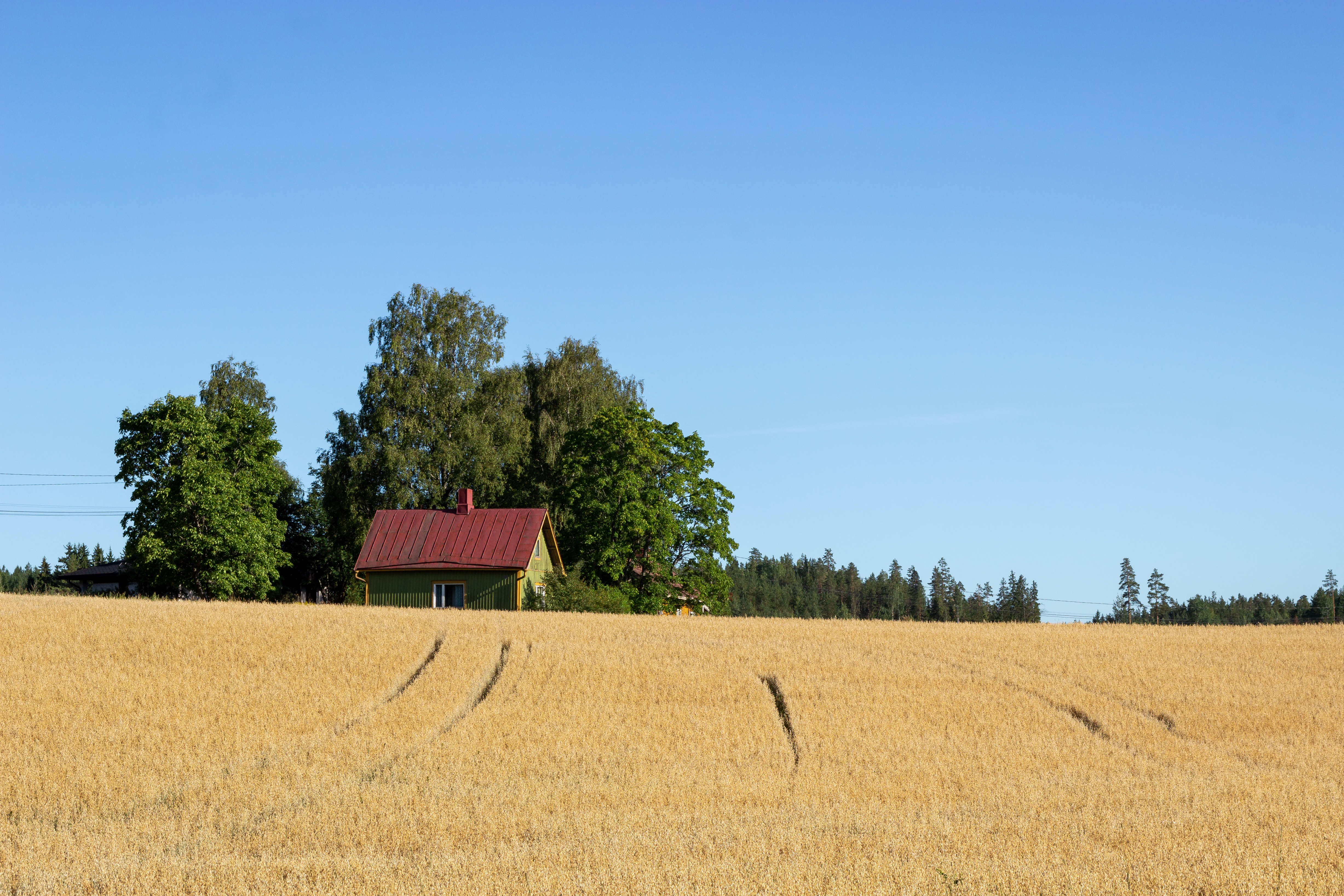 A green house sits behind a golden grainfield in Henna, Orimattila.